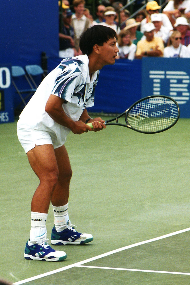 The American tennis player Michael Chang at Thriftway Championships Cincinnati (Cincinnati Open), Ohio. (Camera Canon AE1)